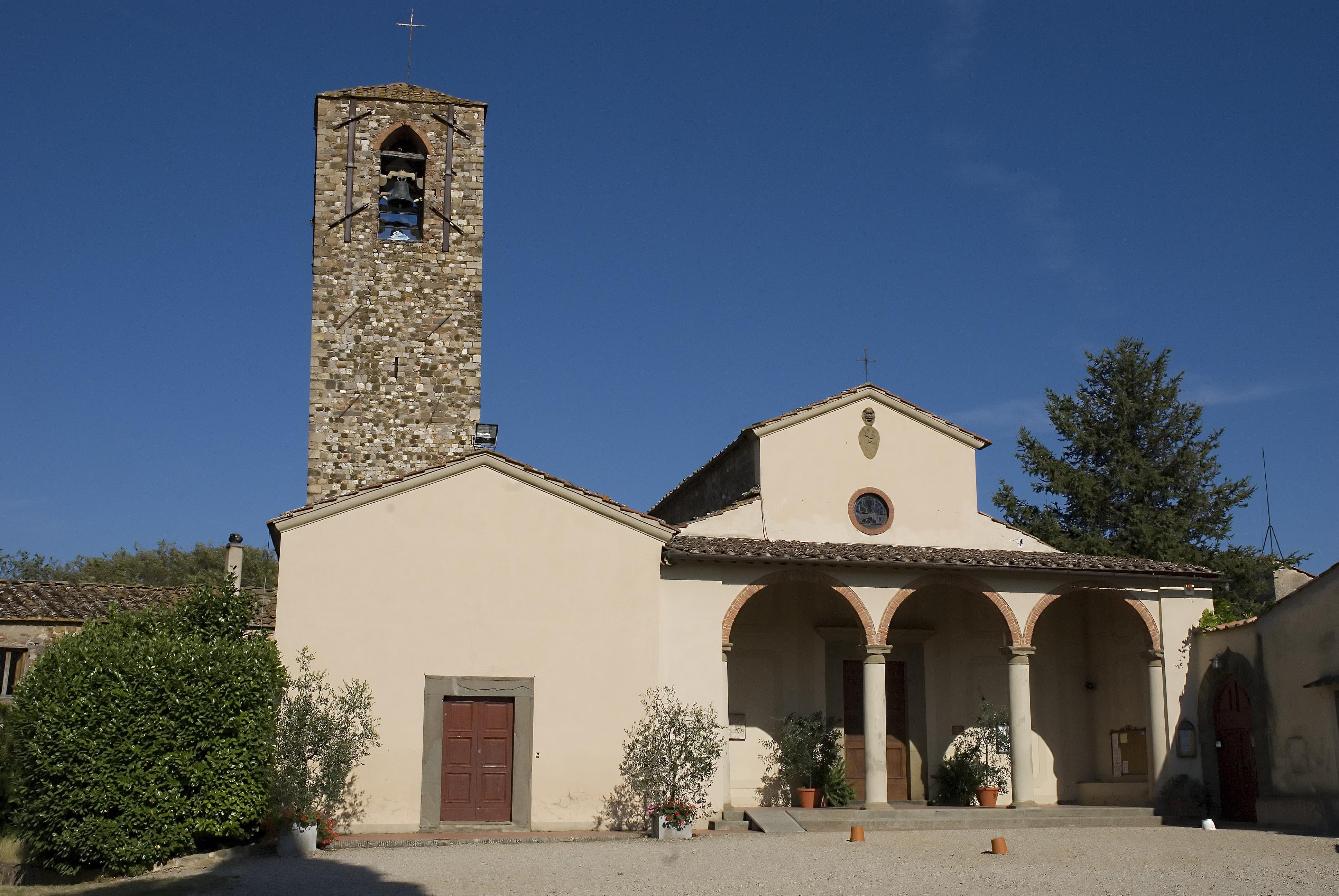 Santa Cecilia church — in Decimo, San Casciano in Val di Pesa, Province of Florence, Tuscany. Romanesque bell tower and church facade.